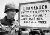 LTG Bruce R. Palmer, Jr. Operation Power Pack, Santo Dominguo, 1965